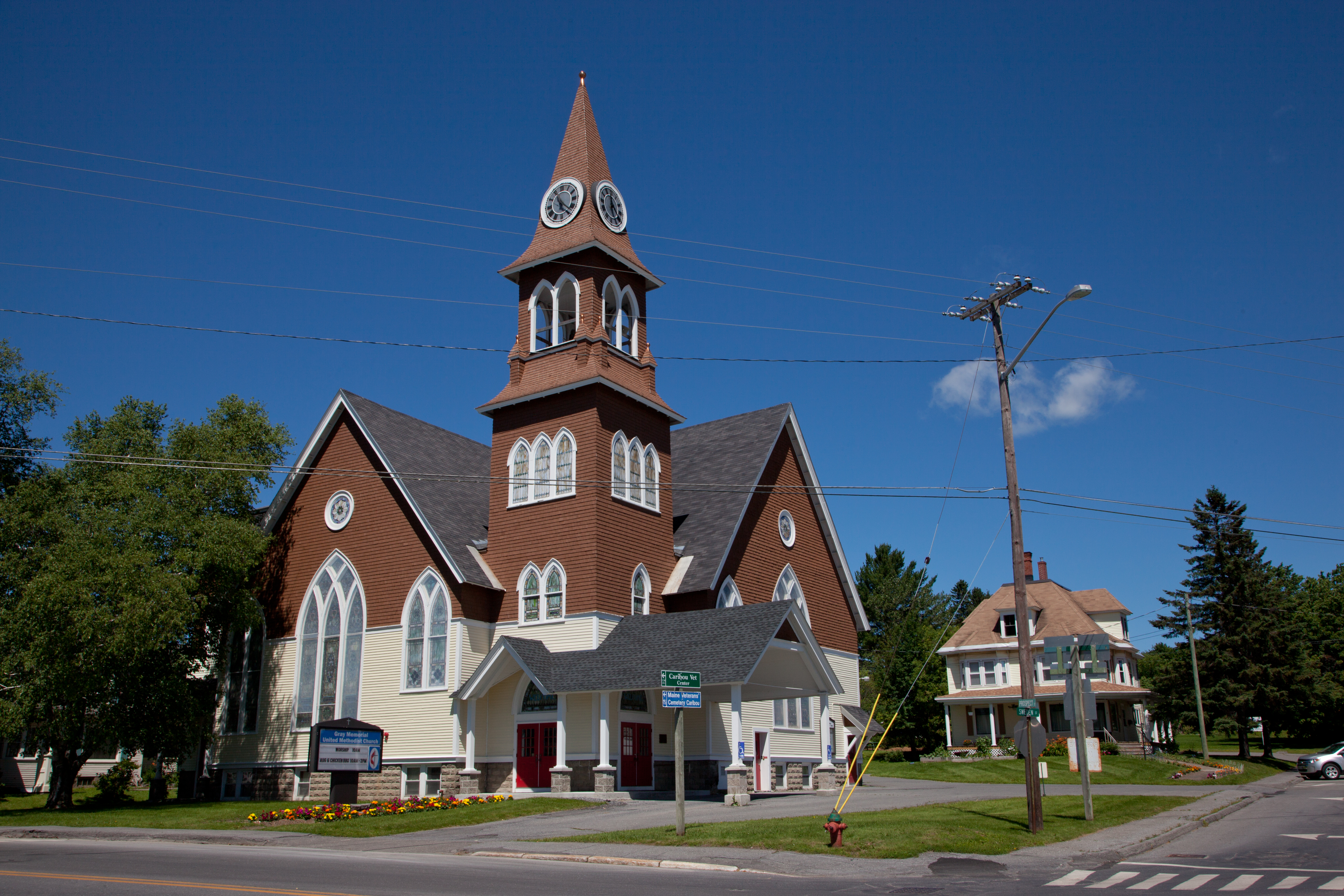 The Gray Memorial United Methodist Church and Parsonage, on the National Register of Historic Places, located in Caribou, Maine.